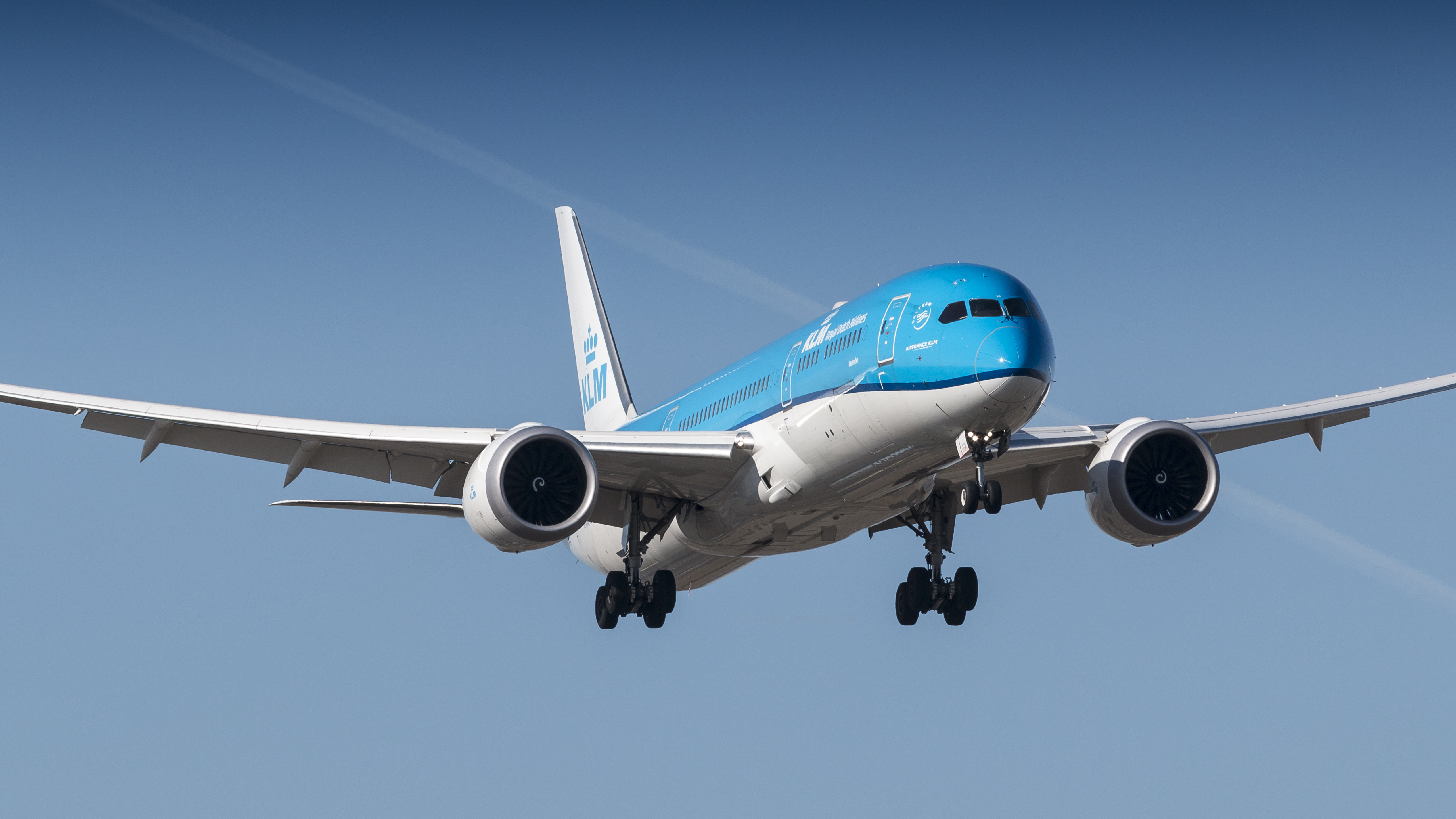 Schiphol, the Netherlands